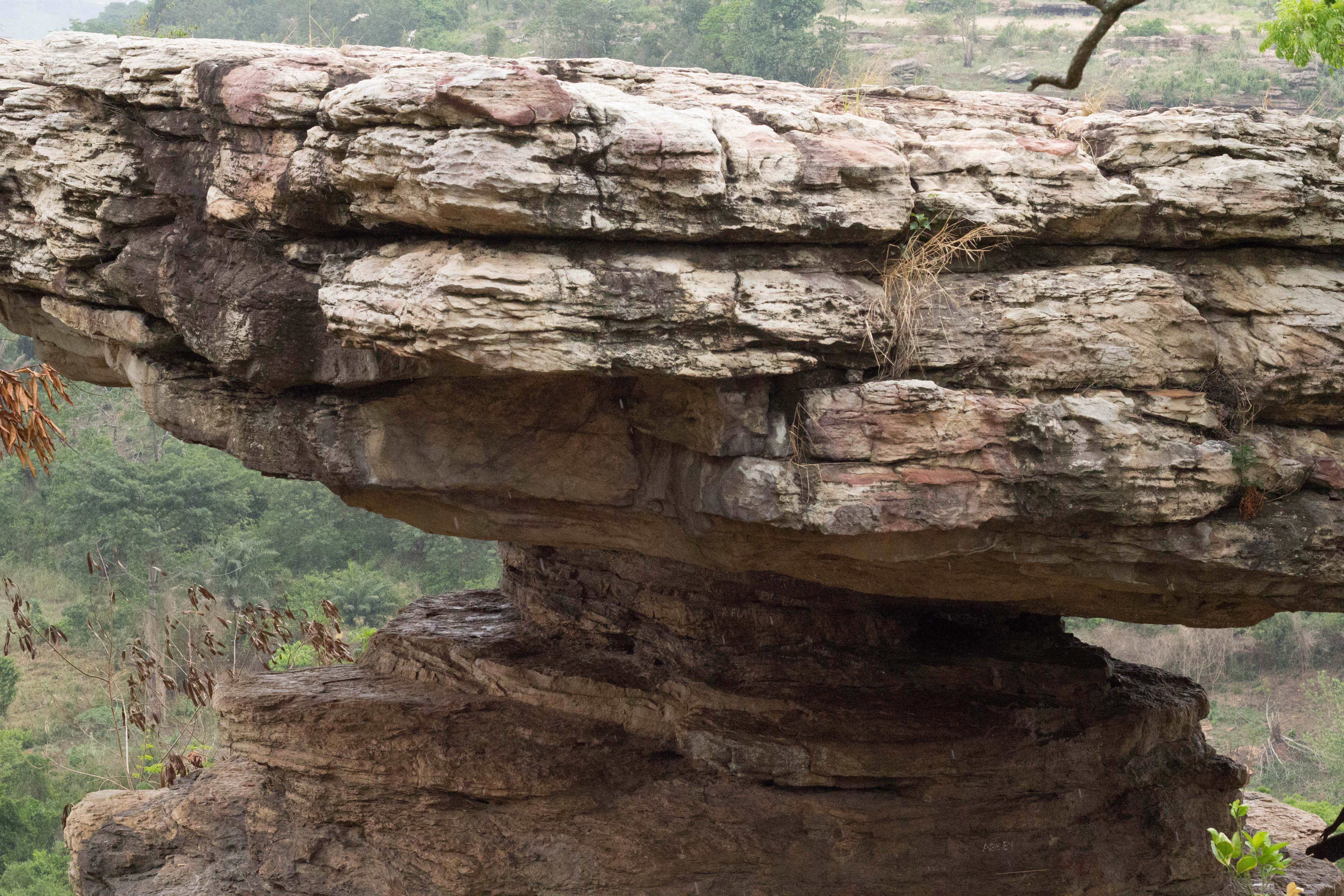 Umbrella Rock situated in the eastern part of Ghana.